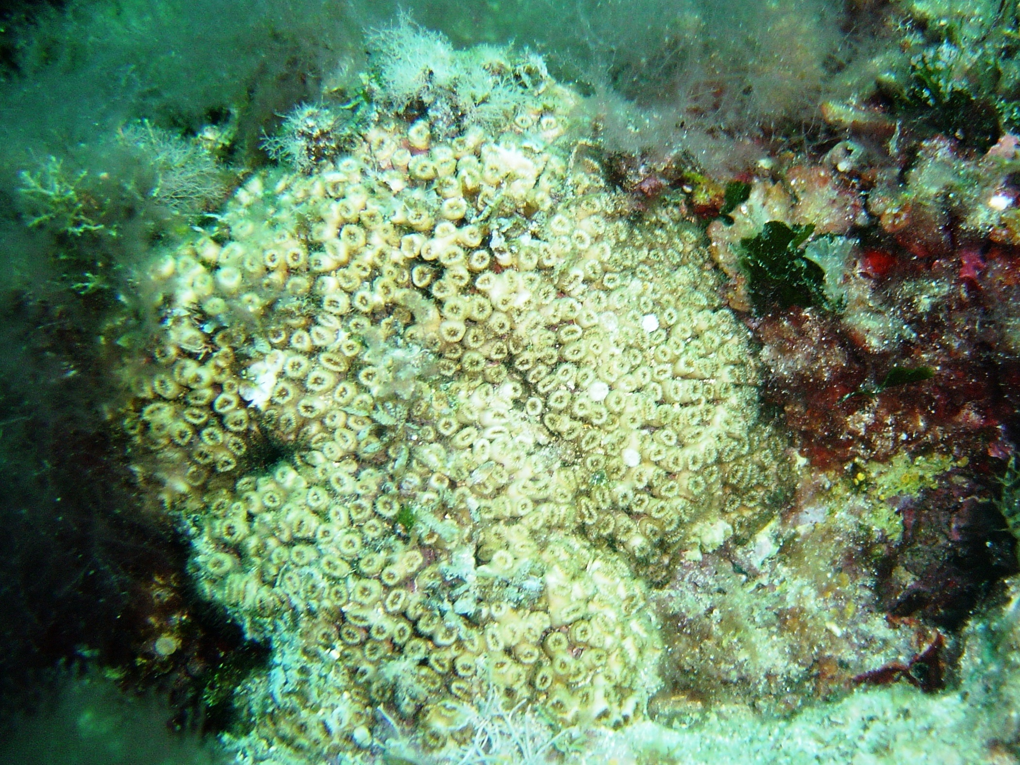 Cladocora caespitosa AMP Capo Gallo, Mediterranean Sea